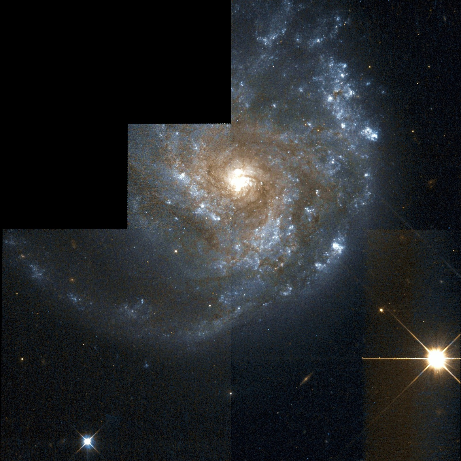 NGC 2276 galaxy by Hubble space telescope